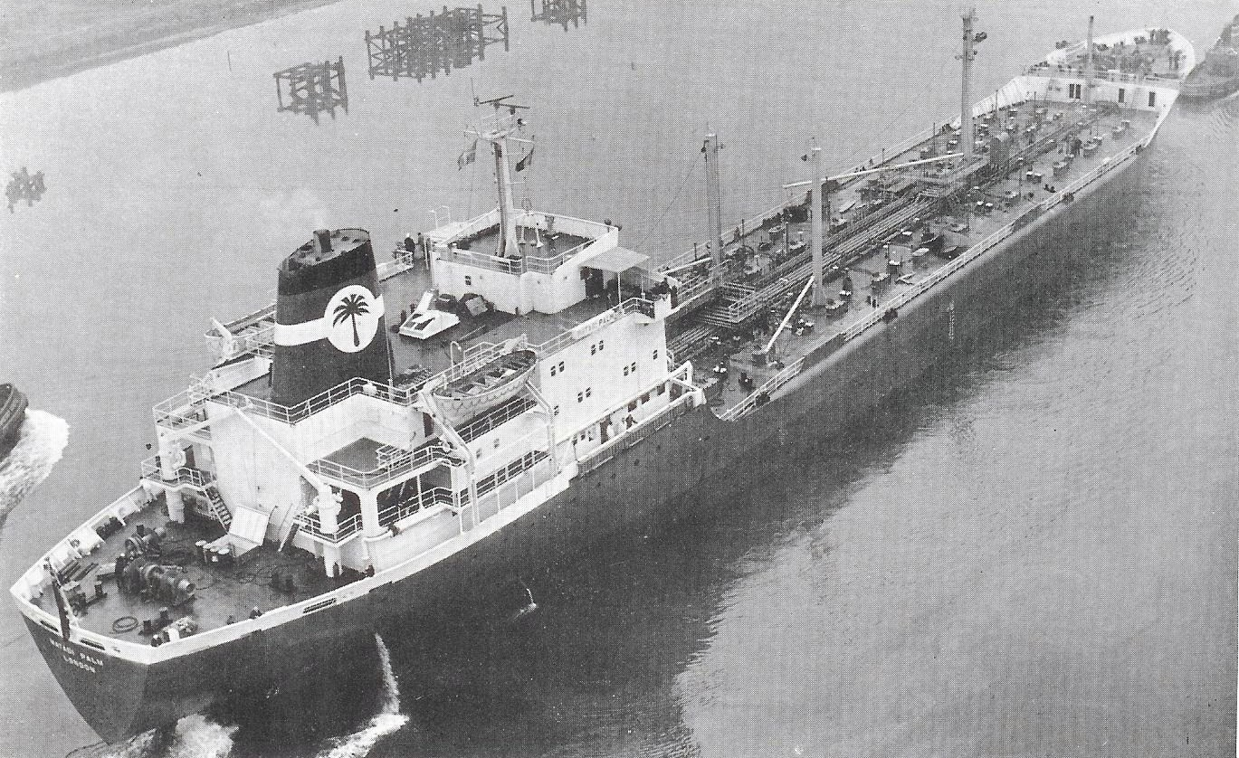 Palm Line Bulk Vegetable Oil Tanker built at on the Tyne